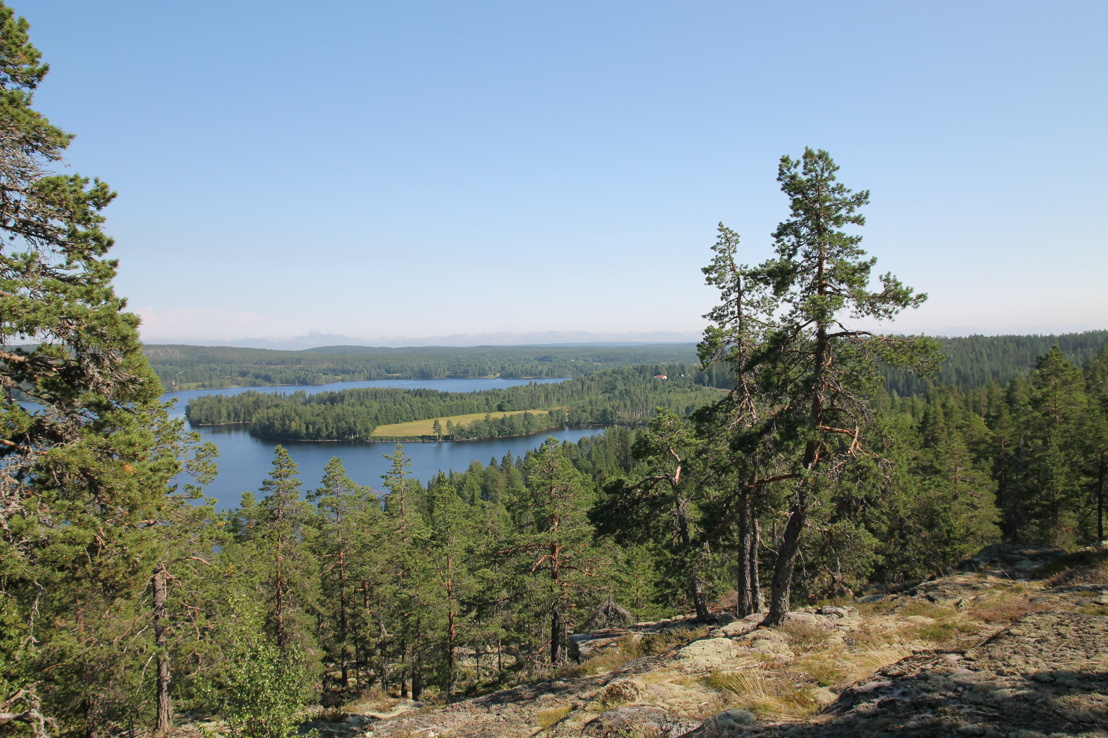 Byviken, Örnsköldsviks kommun